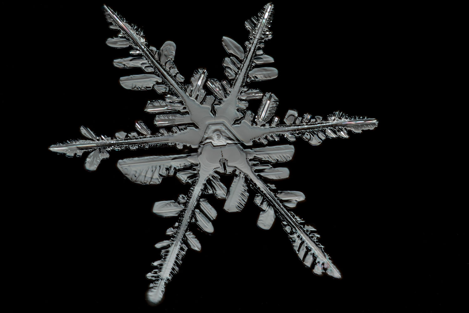 stellate snowflake photographed Vermont 2015.